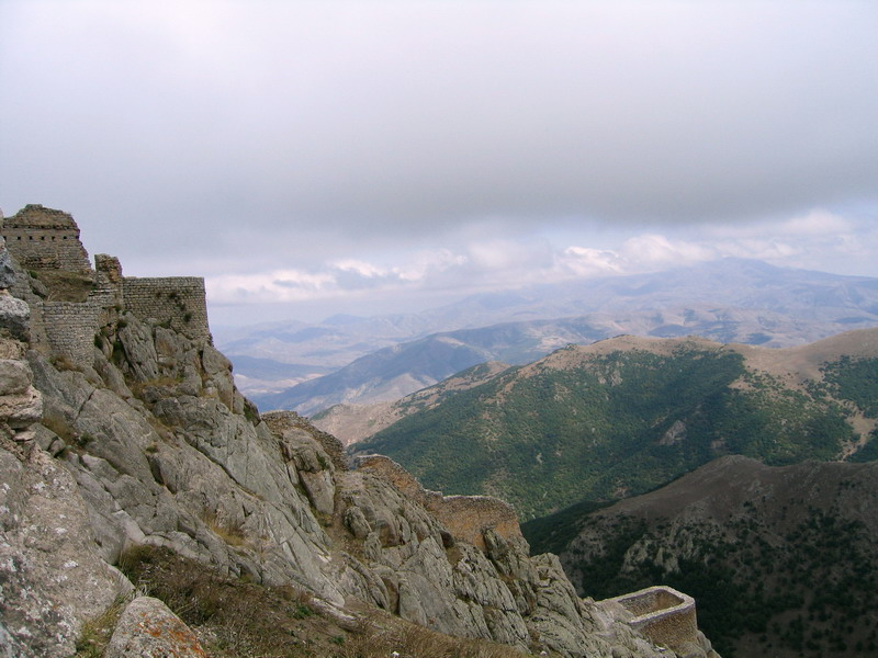 Babak Castle, Iran. Sept. 2004